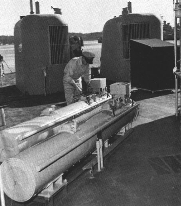 View of the Mark 25 (?) torpedo tubes aboard the experimental U.S. Navy hydrofoil USS High Point (PCH-1), circa in 1964.